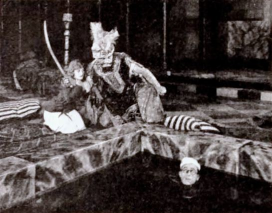 Still from the American film A Sailor-Made Man (1921) with Mildred Davis, Harold Lloyd, and Dick Sutherland, on page 68 of the December 3, 1921 Exhibitors Herald.